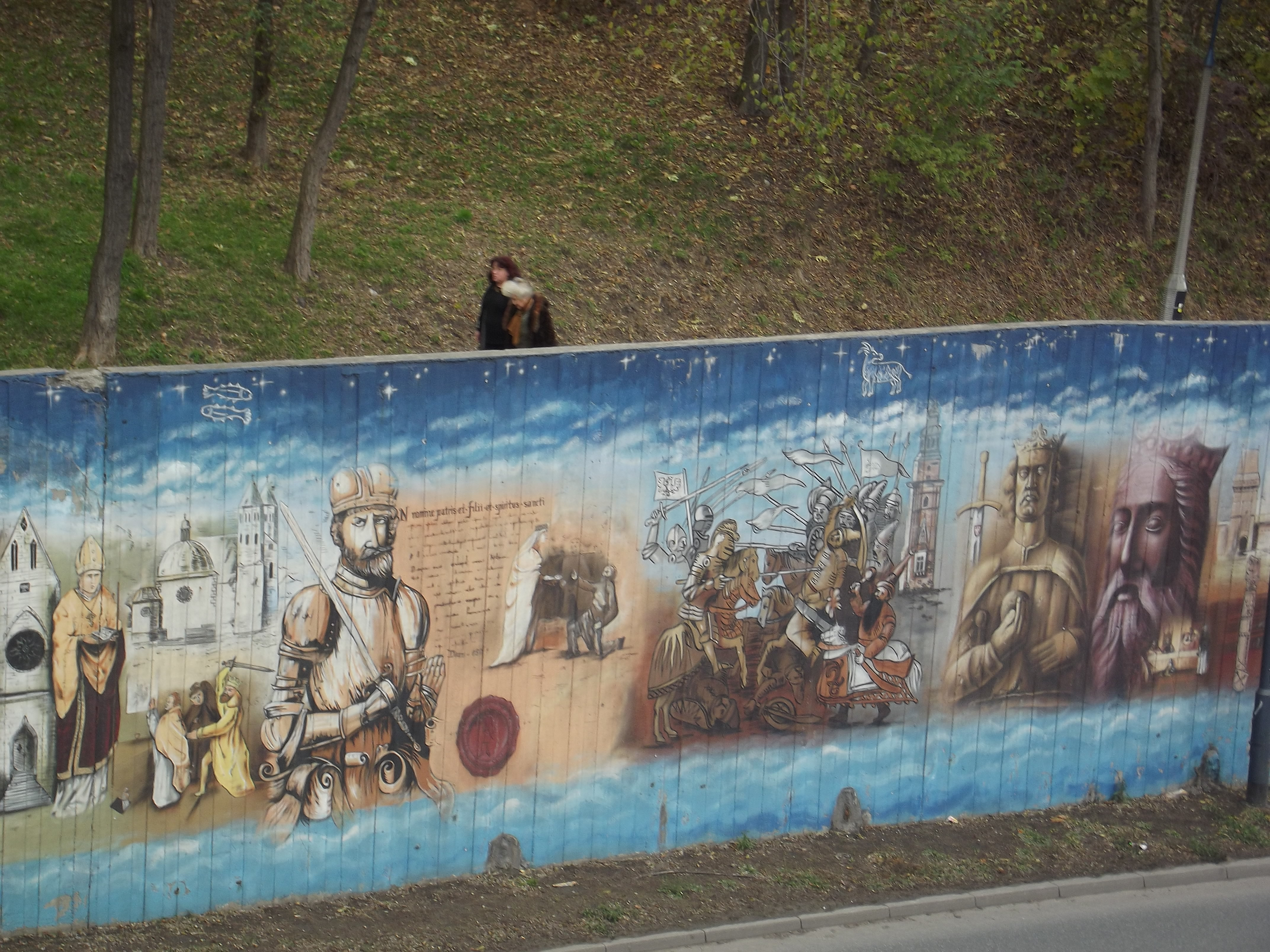 Late middle ages of Cracow on mural Silva Rerum.